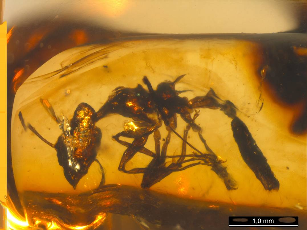 Profile view of the Aphaenogaster dlusskyana holotype workers with front lighting. Sakhalin Amber, Naibuchi Formation, Middle Eocene, 43-47 Ma; Sakhalin Island, Far East Russia Borissiak Paleontological Institute of the Russian Academy of Sciences, Moscow, Russia (PIN). PIN 3387/172